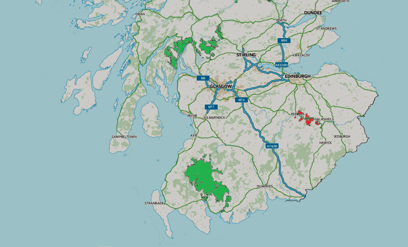 Created using data from which uses Scottish Government Data which is released using Open Gov Licence Version 3.